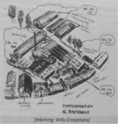 afbeelding 6.3 Raessens